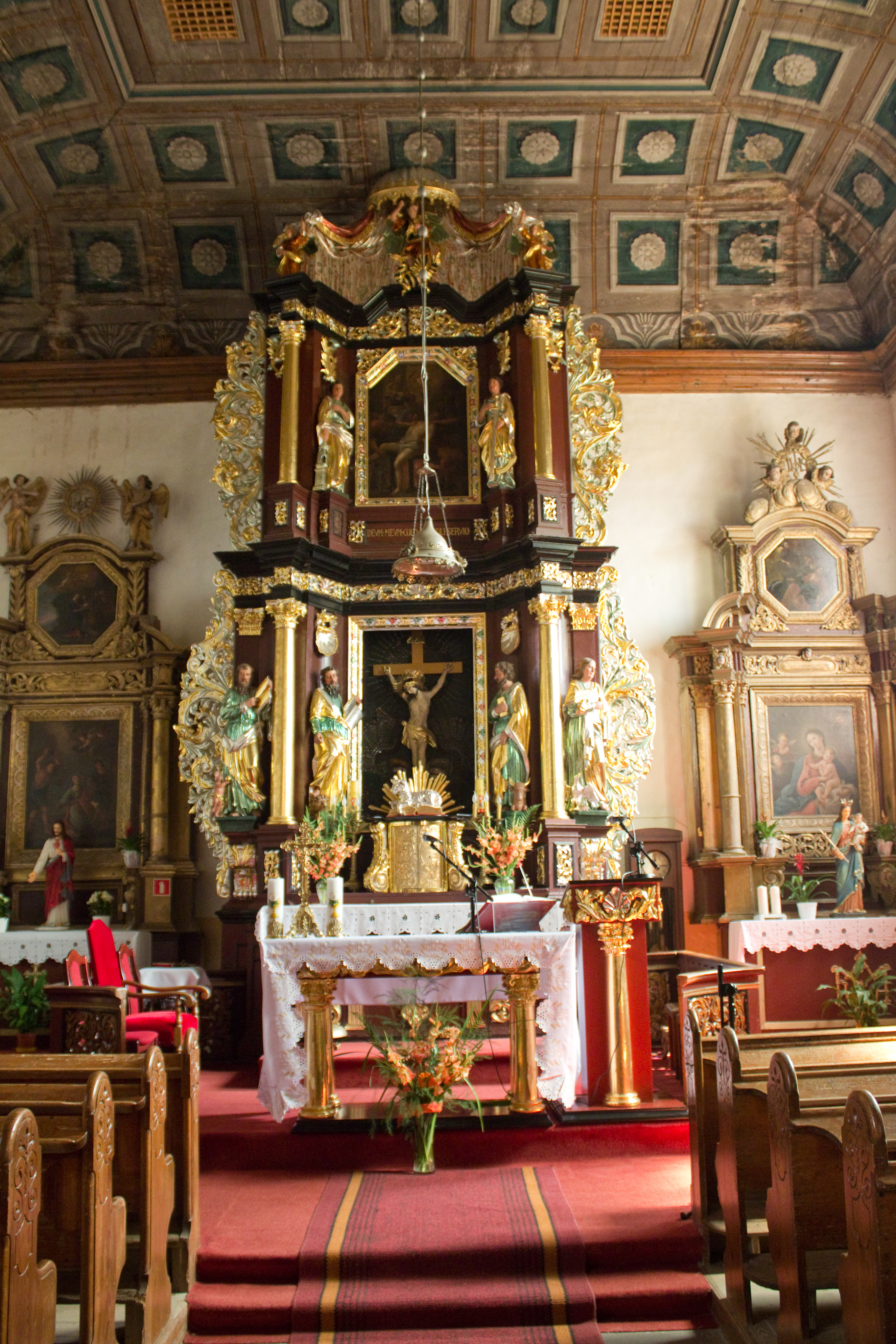 Church, Krekole, gmina Kiwity, powiat lidzbarski, Warmian-Masurian Voivodeship